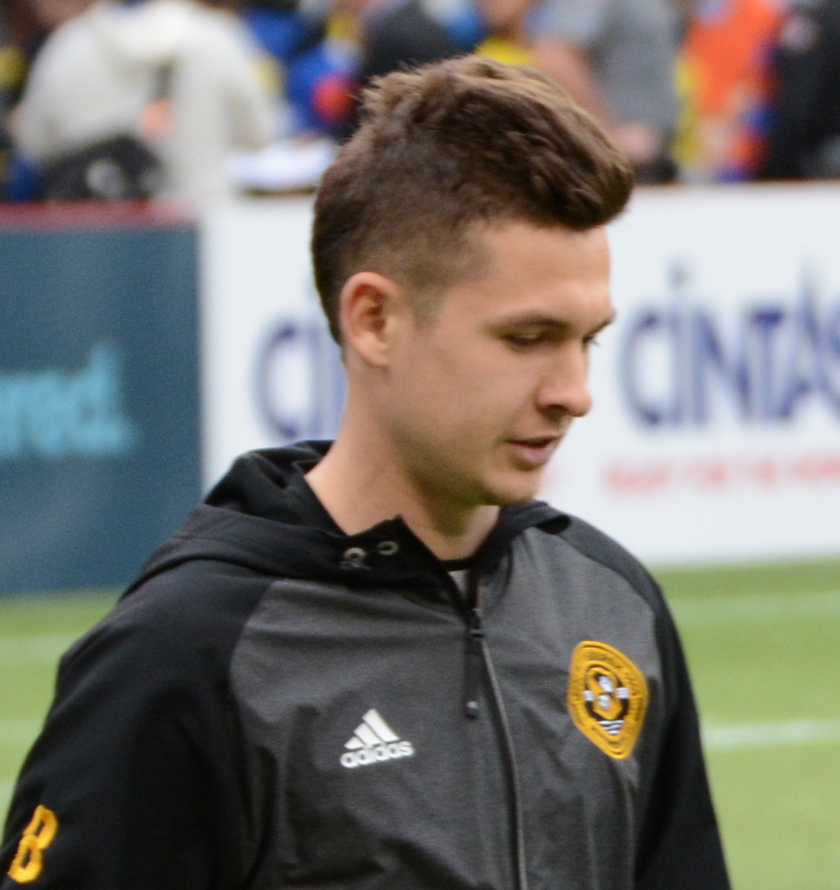 Taken during a USL regular season match between FC Cincinnati and Pittsburgh Riverhounds at Nippert Stadium in Cincinnati, USA on April 21, 2018.